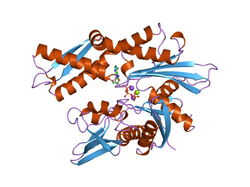 Cartoon representation of the molecular structure of protein registered with 3hsc code.